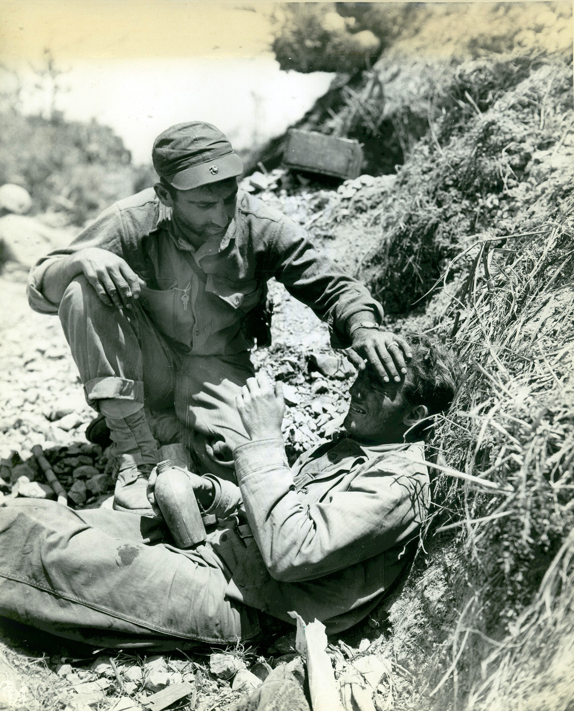 The caption on this photograph reads "My Buddy-A Marine comforts a brother Leatherneck who broke down and cried after witnessing the death of a buddy on an Okinawa hillside. These First Division Marines participated in the furious drive on Shuri Castle the enemy fortress two miles east of the capital city of Naha." From the Photograph Collection (COLL/3948), Marine Corps Archives & Special Collections OFFICIAL USMC PHOTOGRAPH